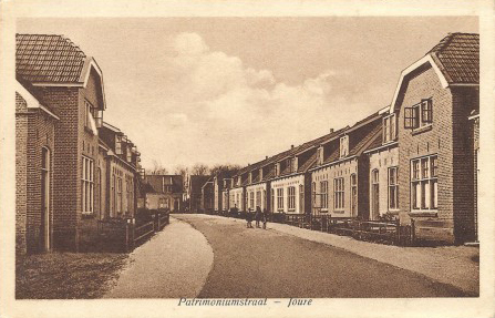 Postcard of Patrimoniumstraat Westermeer. 1920